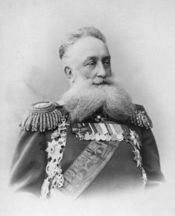 Loginov Petr Petrovich